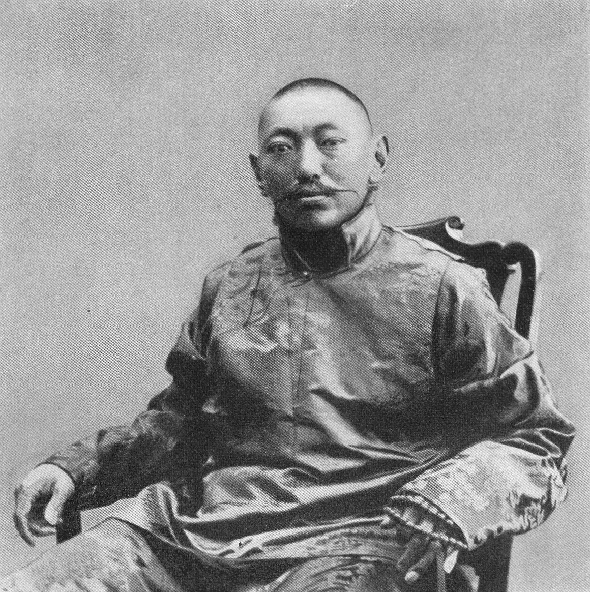 13th Dalai Lama, Thubten Gyatso (Tibetan: ཐུབ་བསྟན་རྒྱ་མཚོ་), during his time of exile 1908/9 in Peking.